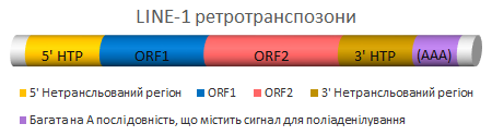 Structure of LINE-1 retrotransposon. Own work based on the illustration from Cordaux R, Batzer M a. The impact of retrotransposons on human genome evolution. Nat Rev Genet. 2009 Oct ;10(10):691–703. PMID: 19763152.